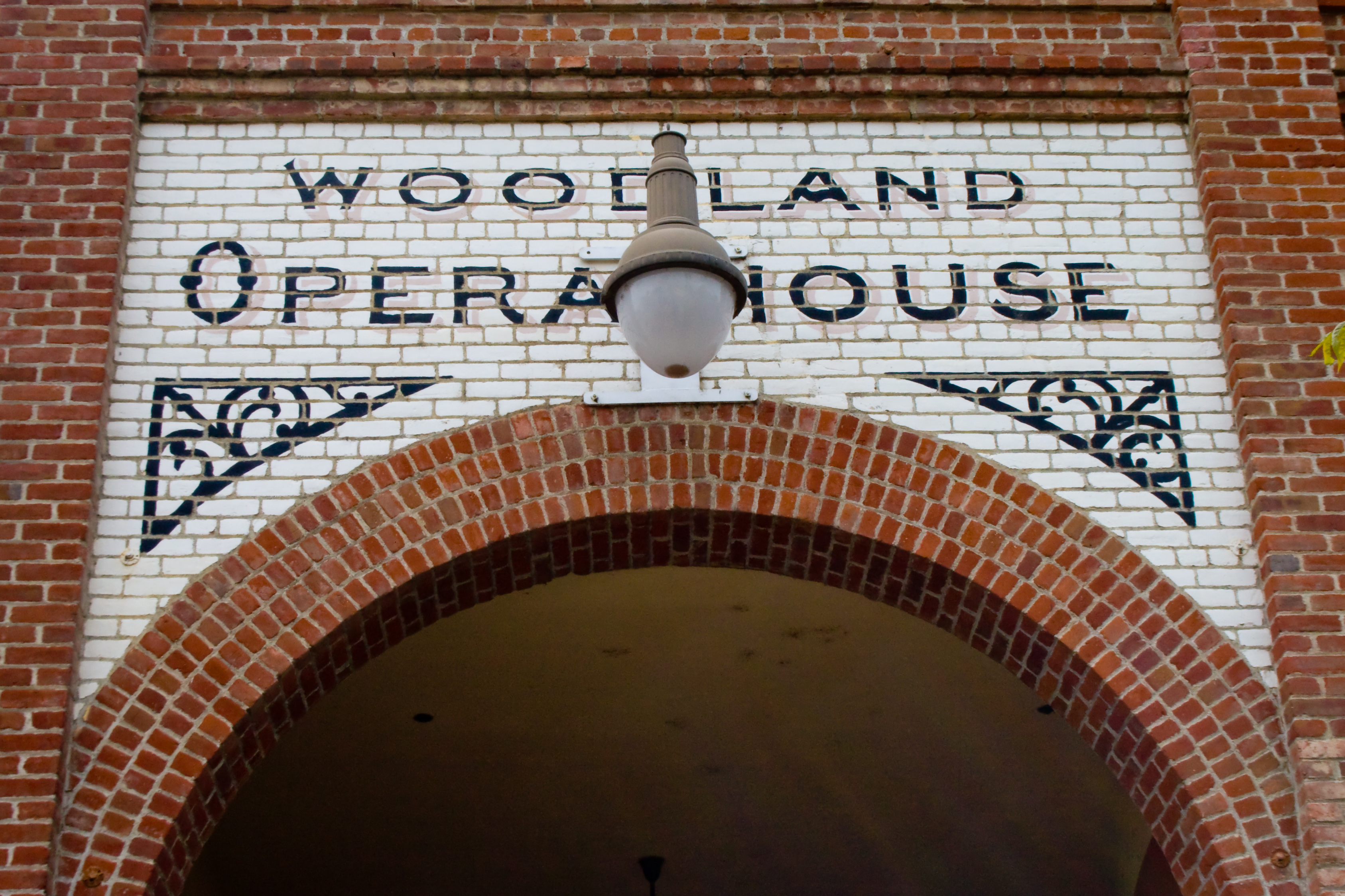 Woodland Opera House State Historic Park, California, USA